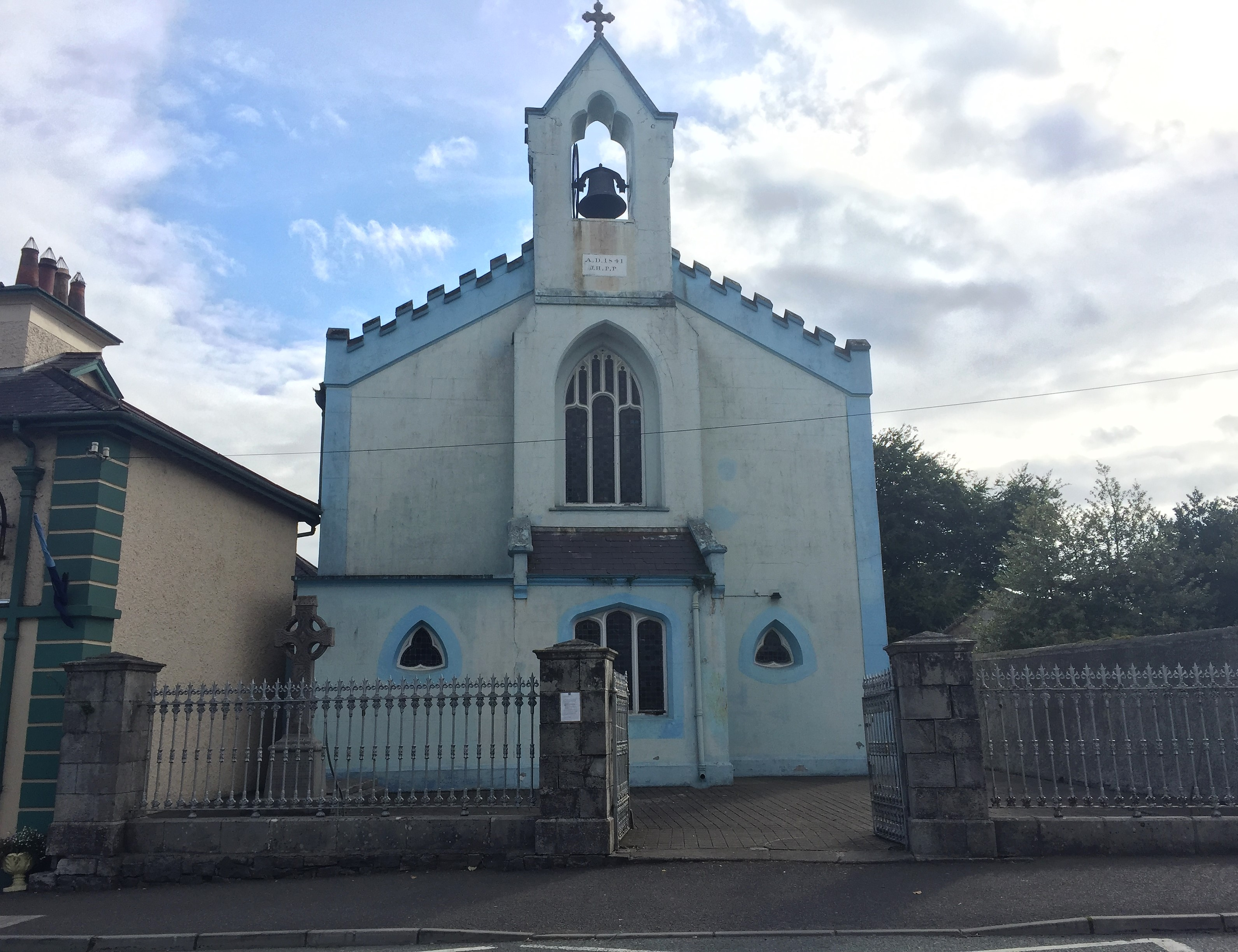 County Meath, St Mary's Church of the Assumption. Wikidata has entry Q55047513 with data related to this item.